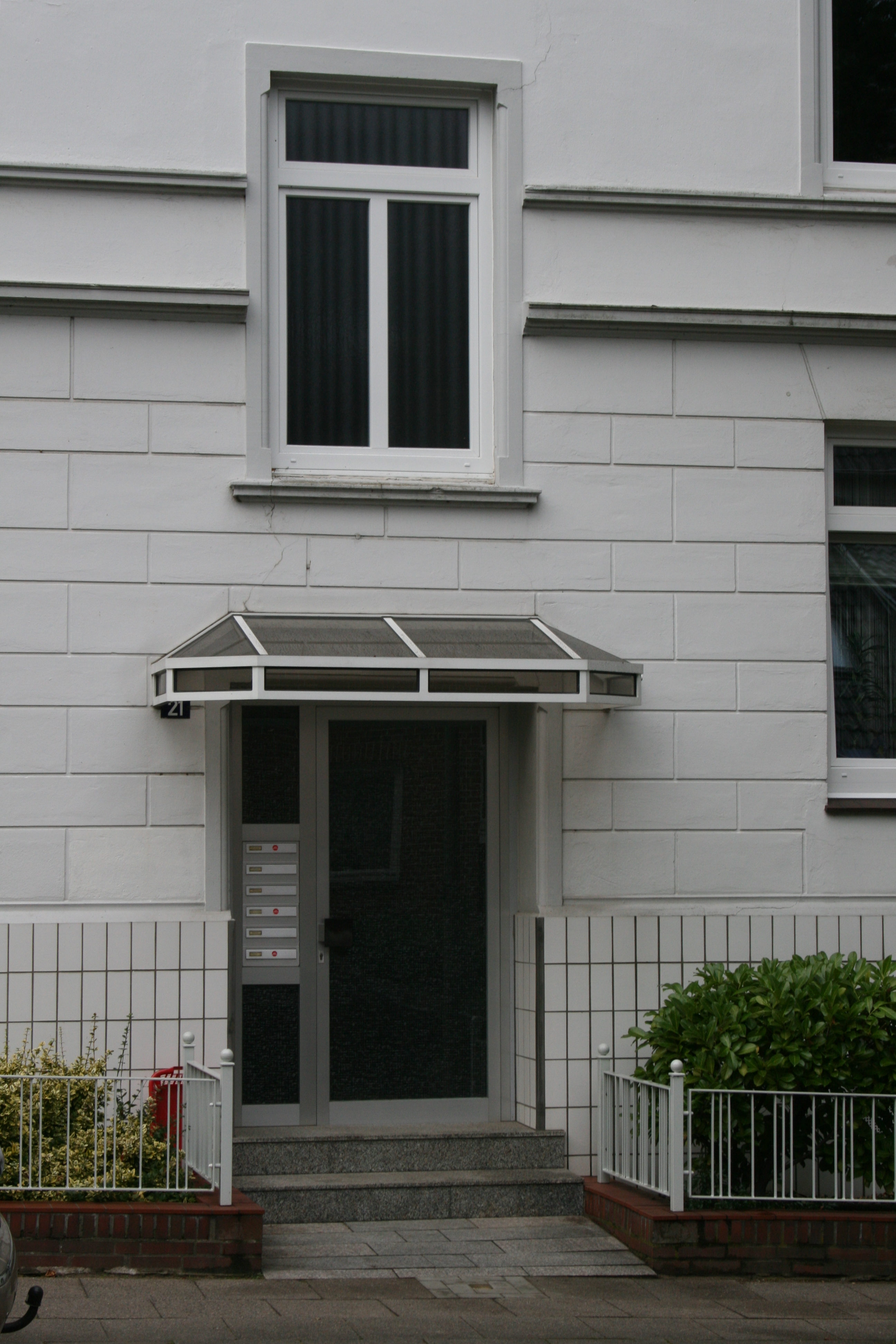 The building Lohbrügger Weg 21 in Hamburg-Bergedorf, with the Stolperstein for Hamfried Rimek